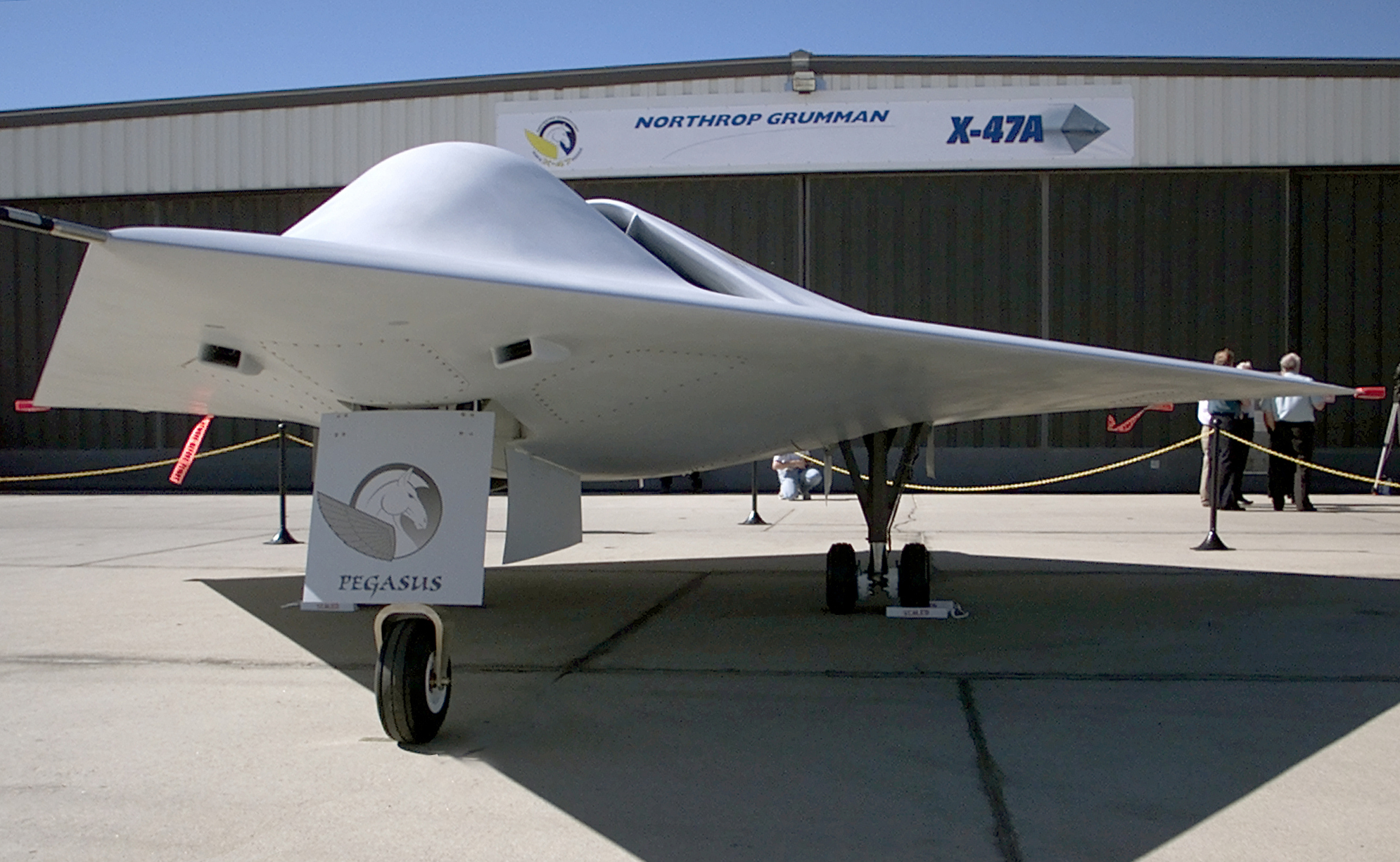 X-47A rollout, low front view